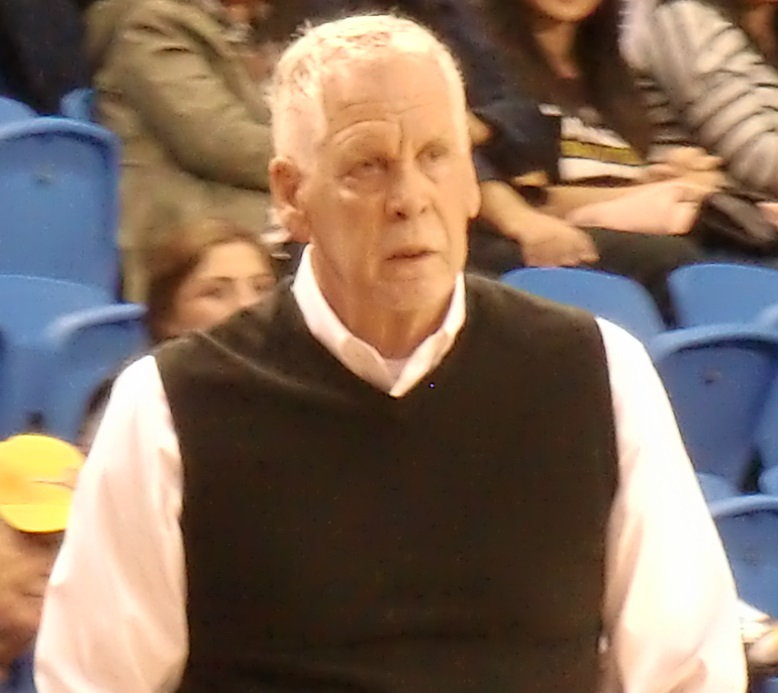 Idaho State University men's basketball coach Bill Evans during a game at San Jose State on November 22, 2017.